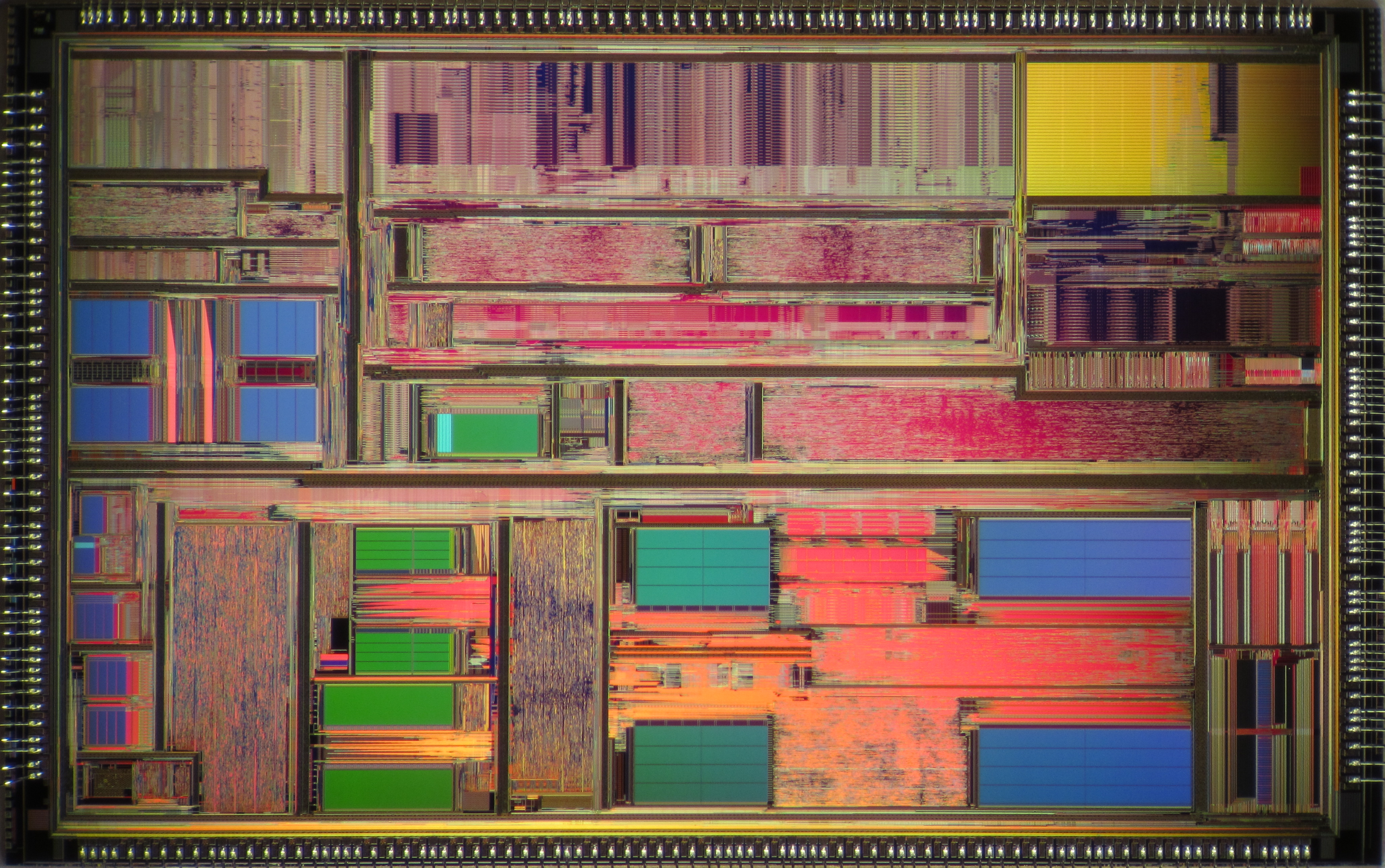 Die shot of AMD K5 PR150 microprocessor (AMD-K5-PR150ABR rev B).